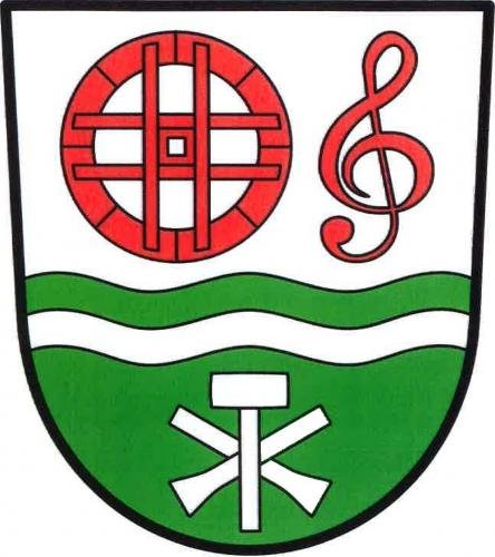 Coat of Arms of Hudčice, Příbram District, Czech Repulic.